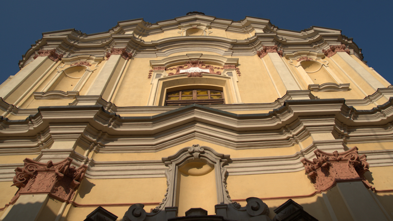 High part of the façade of "Santissima Trinità" church in Crema, Italy